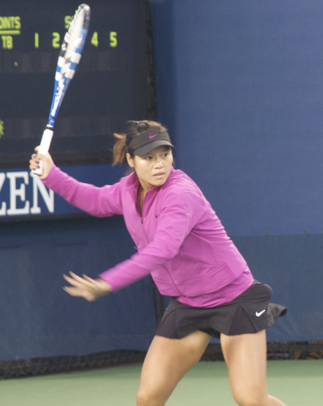 Na Li at the 2009 US Open